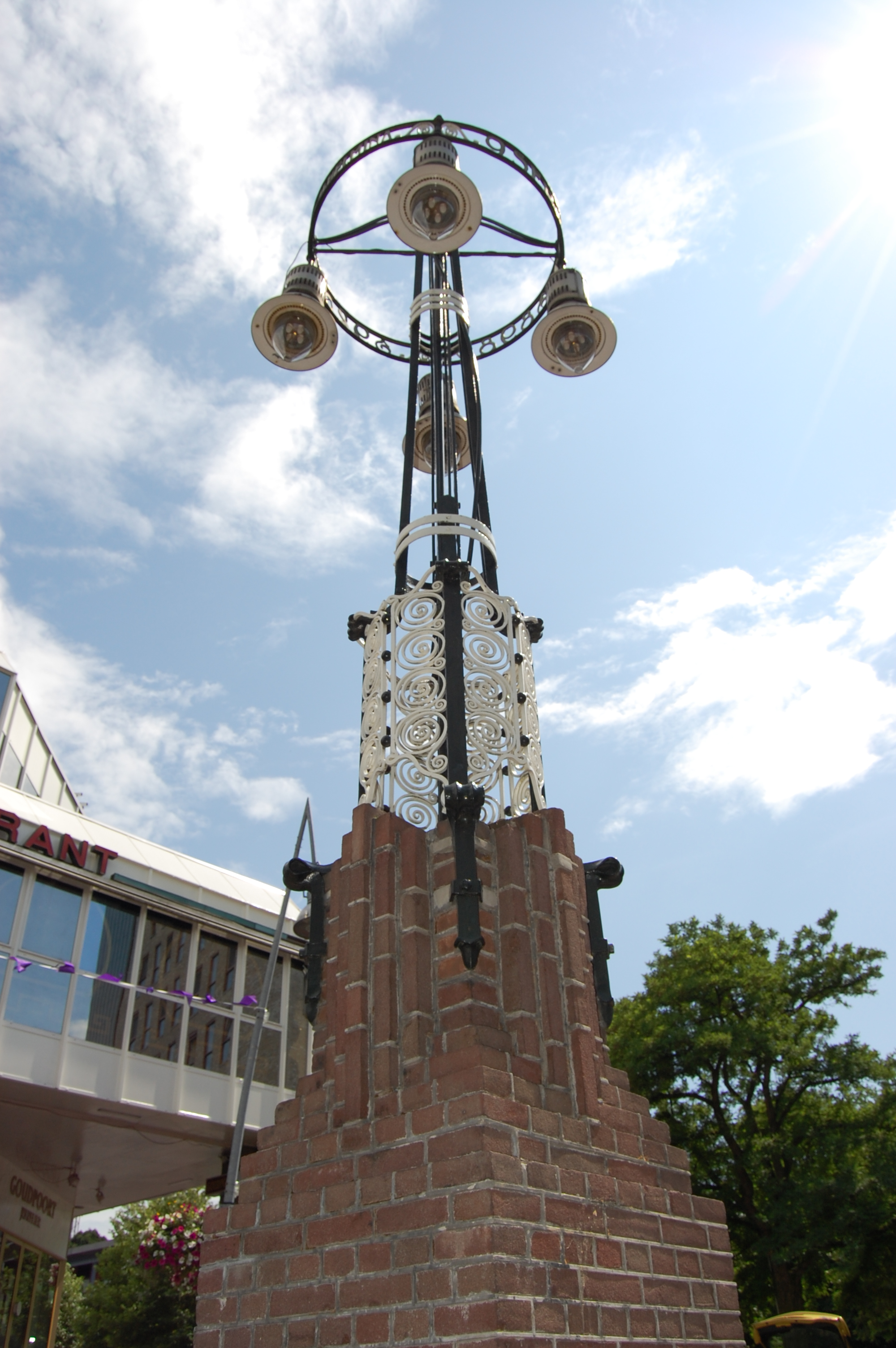 Wilhelminalantaarn in Ede